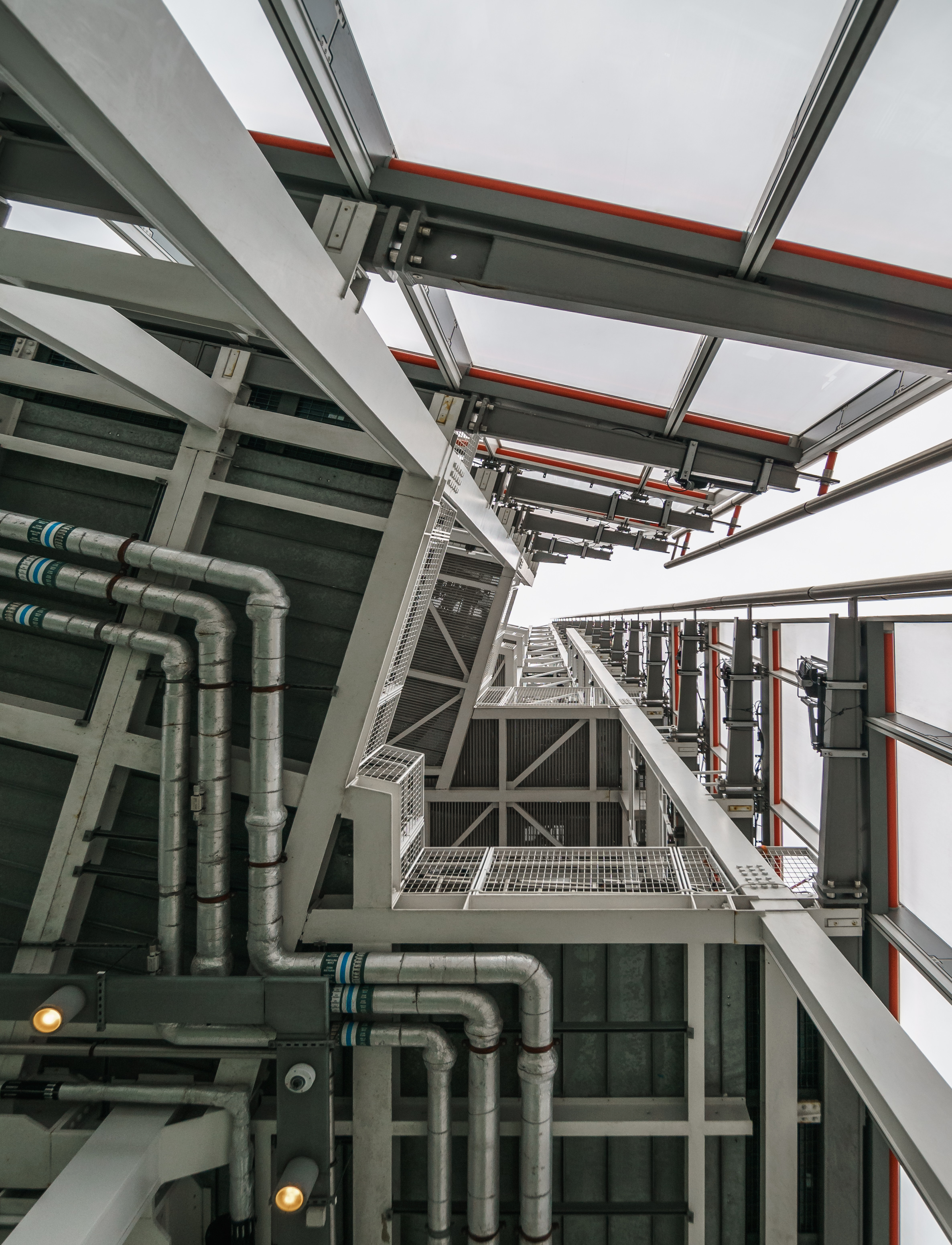 Looking up at The View from The Shard, Level 72.